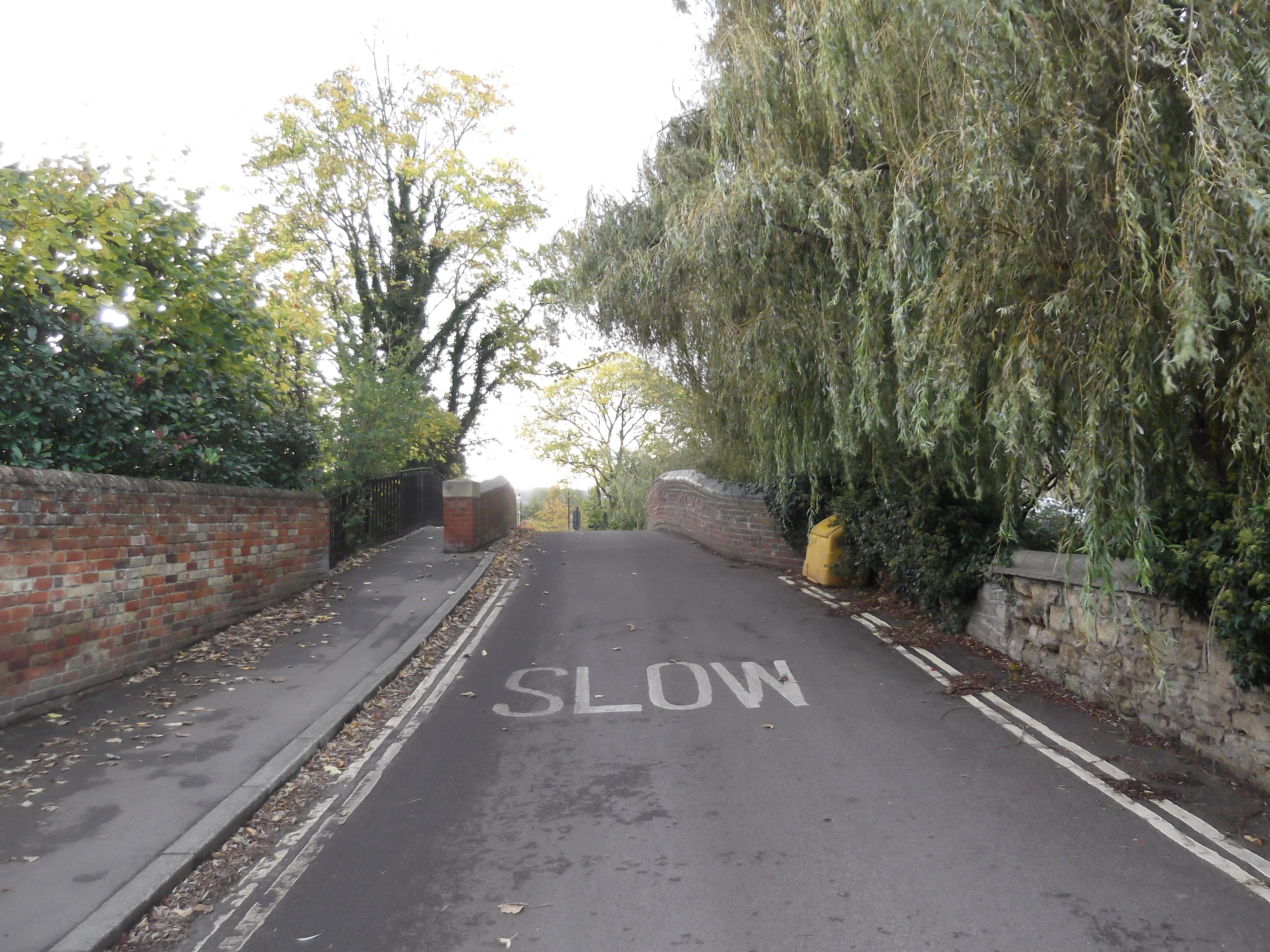 View west along Aristotle Lane, Oxford, over Oxford Canal Bridge 240